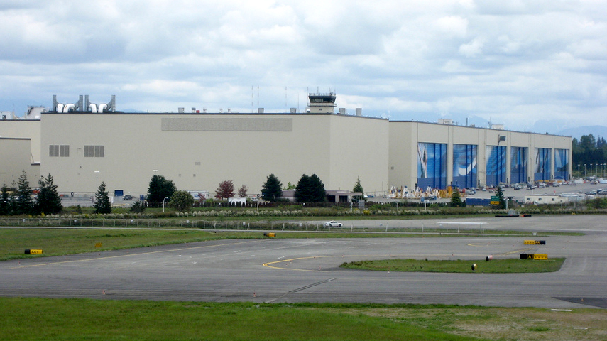 Boeing's Everett plant, the largest enclosed facility in the world.